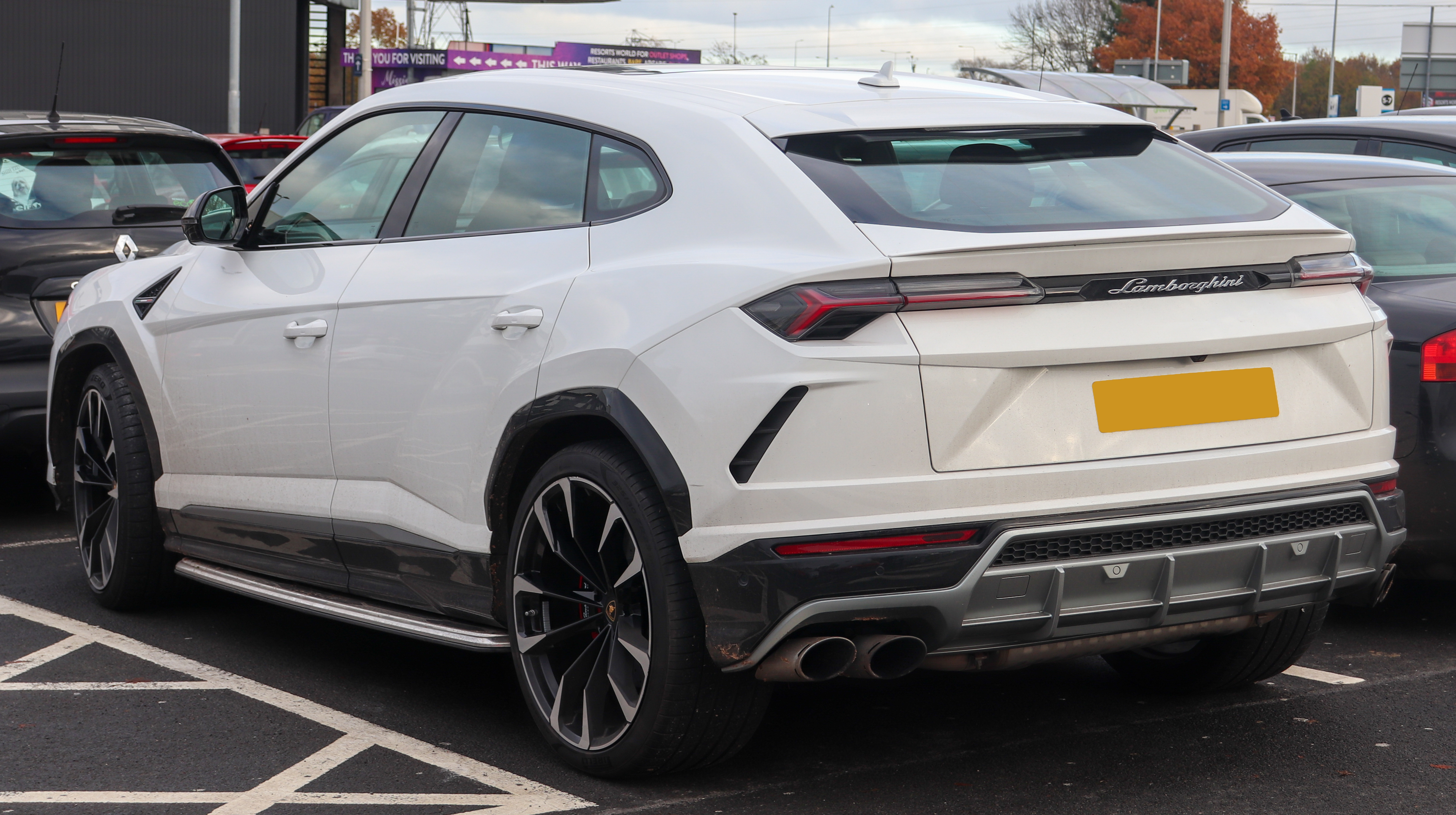 2019 Lamborghini Urus V8 Automatic 4.0 Rear Taken in the NEC Car Park, Birmingham